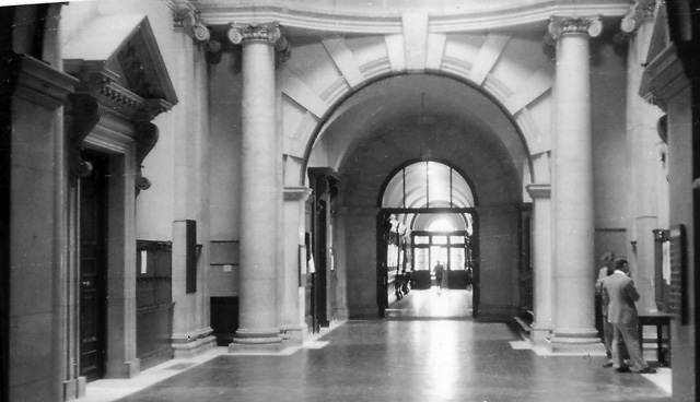 Bryanston School: the Main Hall. View to left from by main entrance (seen on left). This was one of the largest and grandest Country Houses in Britain when built about 1890 by Viscount Portman: sold as a school in 1928. I was 'privileged' to be a pupil, 1940-44.